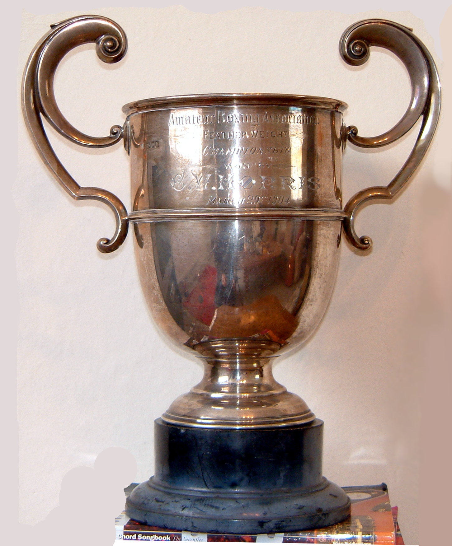 Amateur boxing association cup